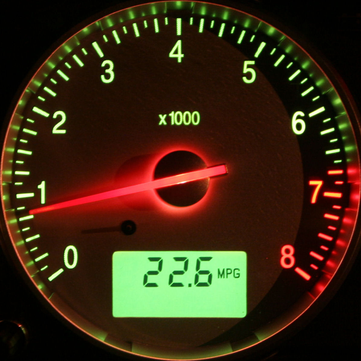 Tachometer in Ford Mondeo ST220 (MK3) (highlighted).